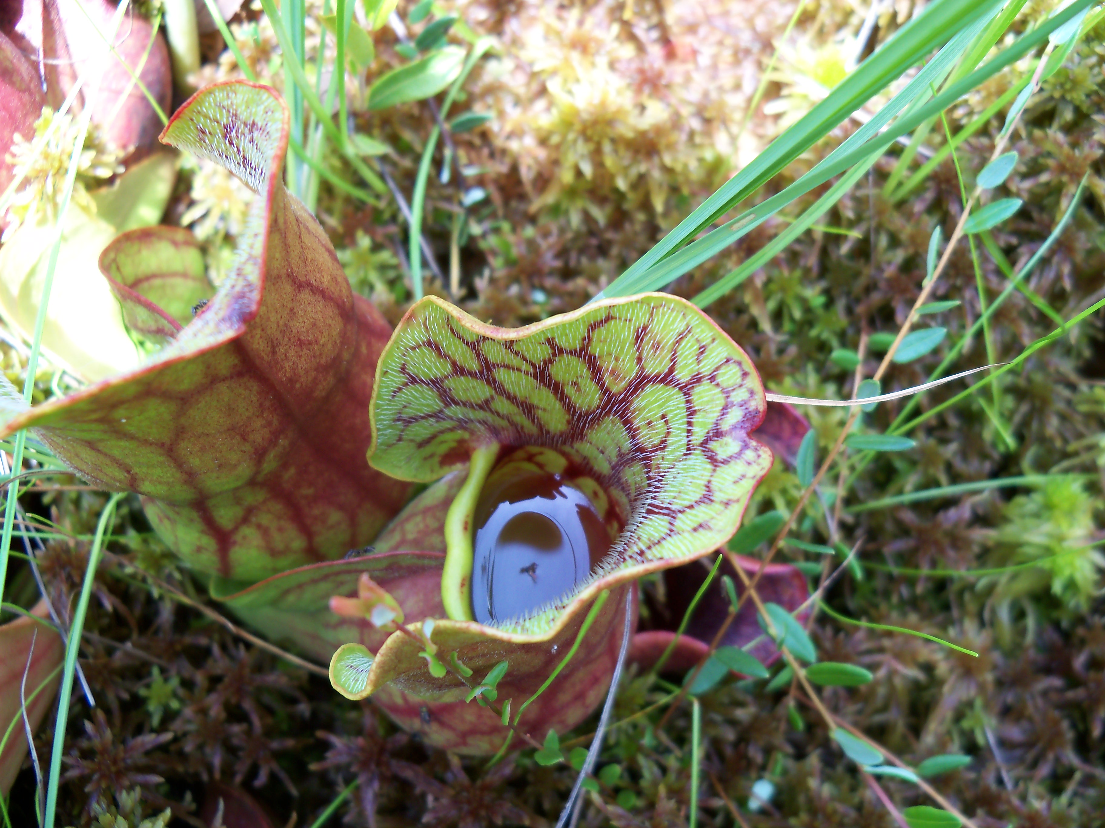 Sarracenia purpurea, Pinhook Bog, Indiana